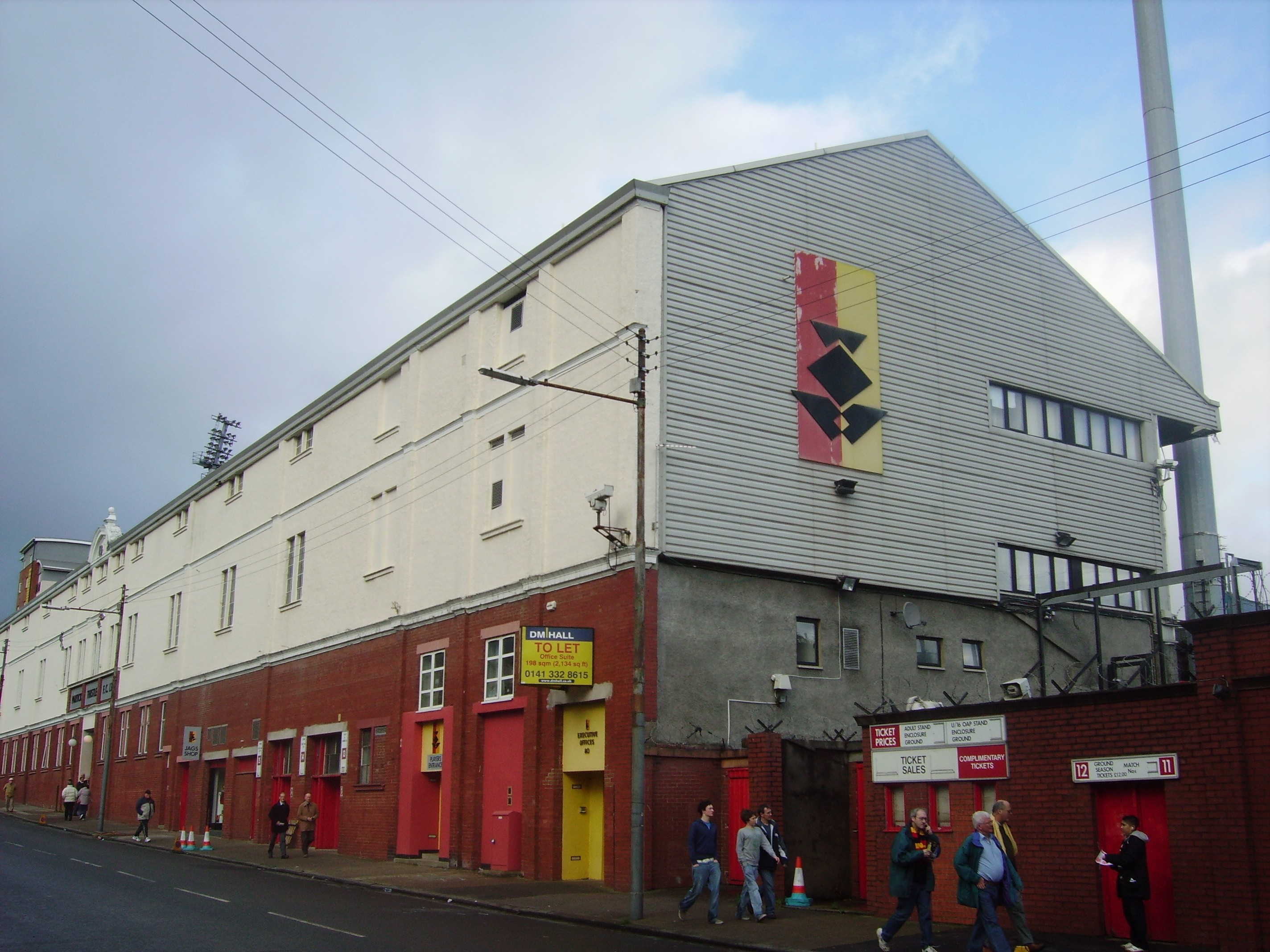 My own pic of Firhill